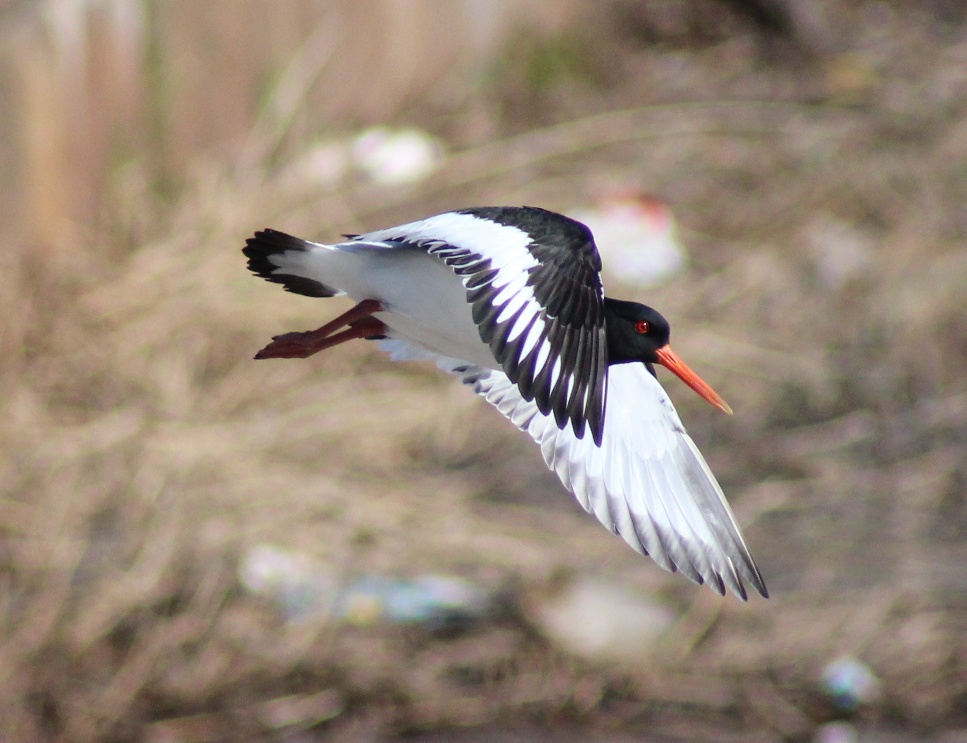 Eurasian Oystercatcher in Linnansaari island in Oulu.